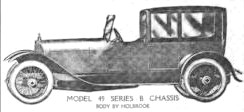 1916 F.R.P. Model 45 Series B Holbrook Town Car